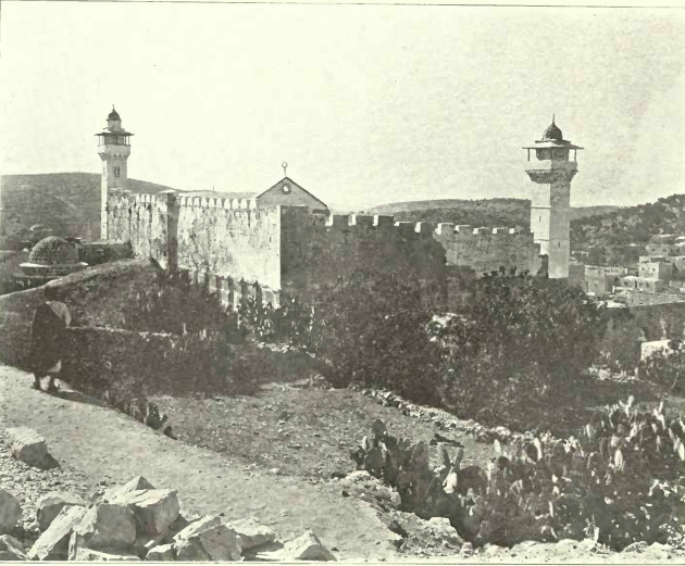 Machpella hebron 1913